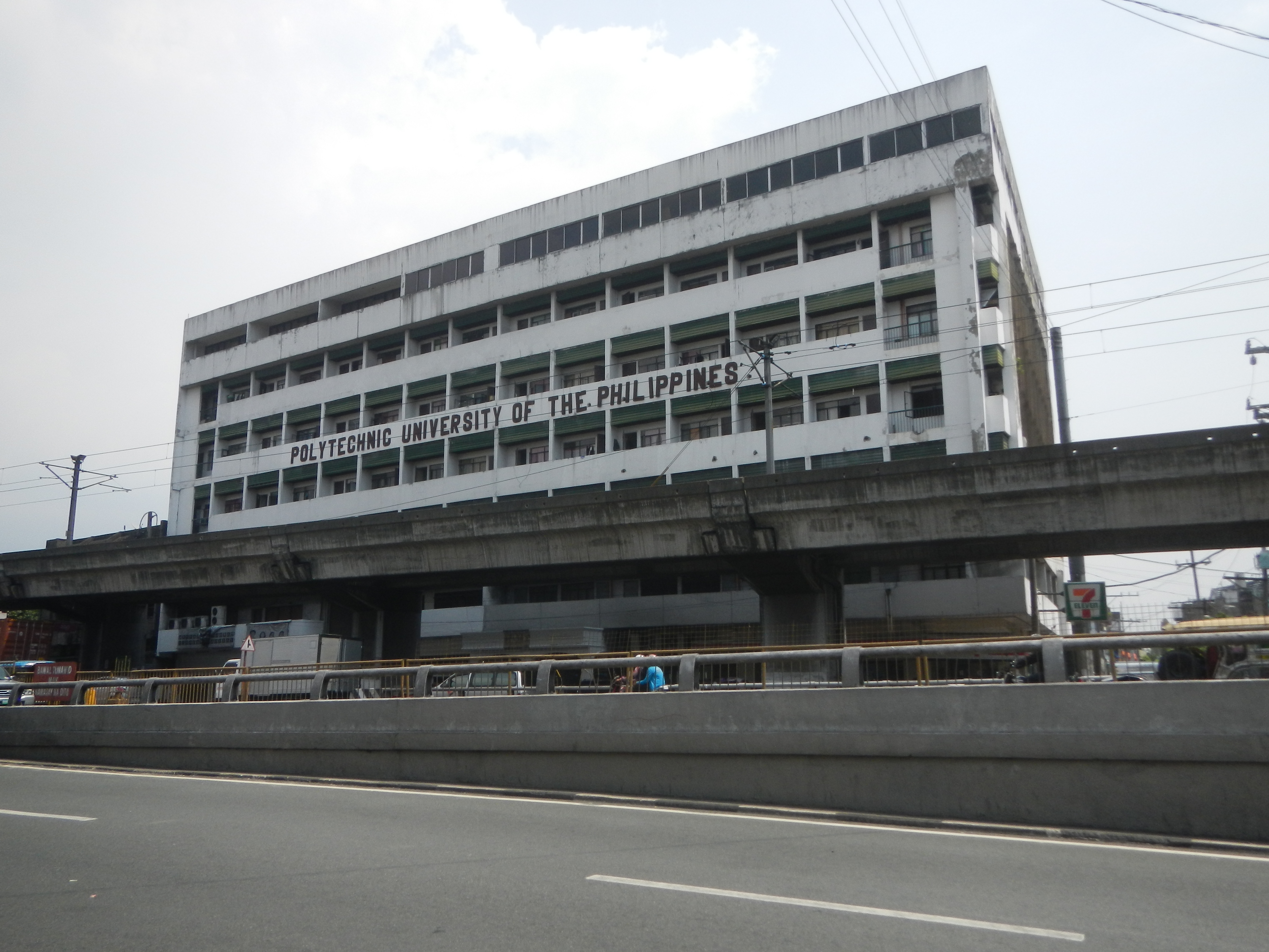 Federation of Electrical and Electronics Suppliers and Manufacturers of the Philippines, Inc., PESA Building Major roads in Manila Magsaysay Boulevard in the List of barangays of Metro Manila Barangays 425, 426, 427, Zone 43, District II, Sampaloc, Manila, Barangays 418, 419, 420, 421, 422, 423, 424, Zone 43, 579, 580, 581, Zone 56, District IV, 592, 593, Zone, 58, 626, 627, 628, 629, Zone 63, District VI, Santa Mesa has 49 barangays (Barangays 587-636) towards Polytechnic University of the Philippines List of universities and colleges in the Philippines PUP along the Legarda - Ramon Magasaysay Fly-Over 20 Tons KM 4+062.22 Vicente G. Cruz Street, M. De la Fuente Street, Federation of Electrical and Electronics Suppliers and Manufacturers of the Philippines, Inc., PESA Building to Ramon Magsaysay Bridge II Load Limit 20 metric Tons, (Note: Judge Florentino Floro, the owner, to repeat, Donor Florentino Floro of all these photos hereby donate gratuitously, freely and unconditionally all these photos to and for Wikimedia Commons, exclusively, for public use of the public domain, and again without any condition whatsoever).